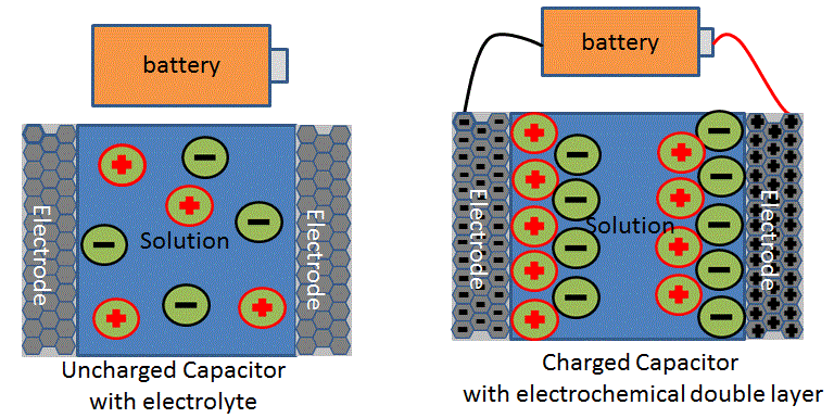 This image shows the charging of a capacitor with a solution. It shows the positively charged ions attaching to the negatively charged electrode. This layer of positive ions then lightly attracts negatively charged ions in the solution. The positive electrode follows this same trend, only it attracts negatively charged ions.